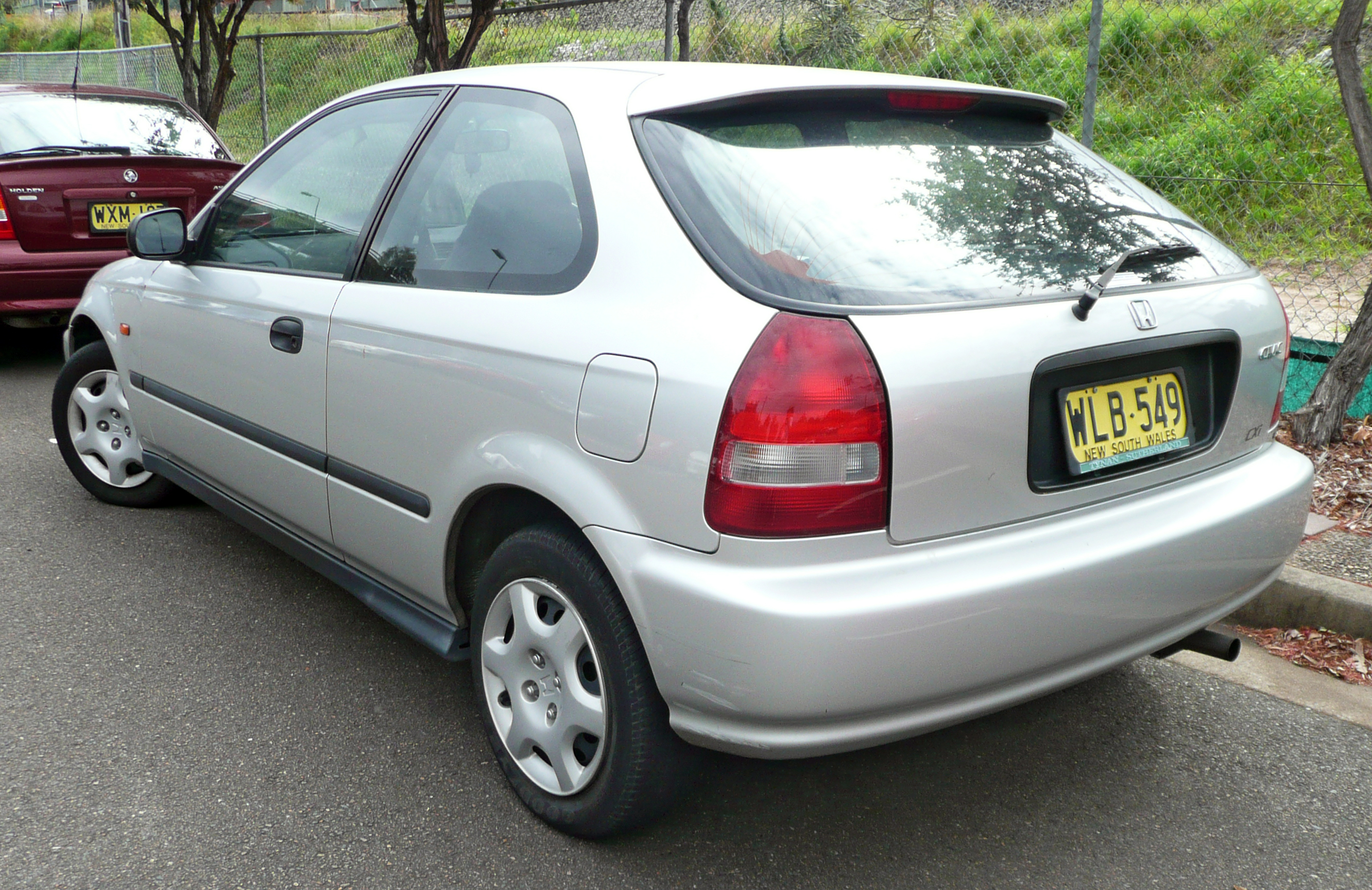 2000 Honda Civic CXi 3-door hatchback. Photographed in Sutherland, New South Wales, Australia.